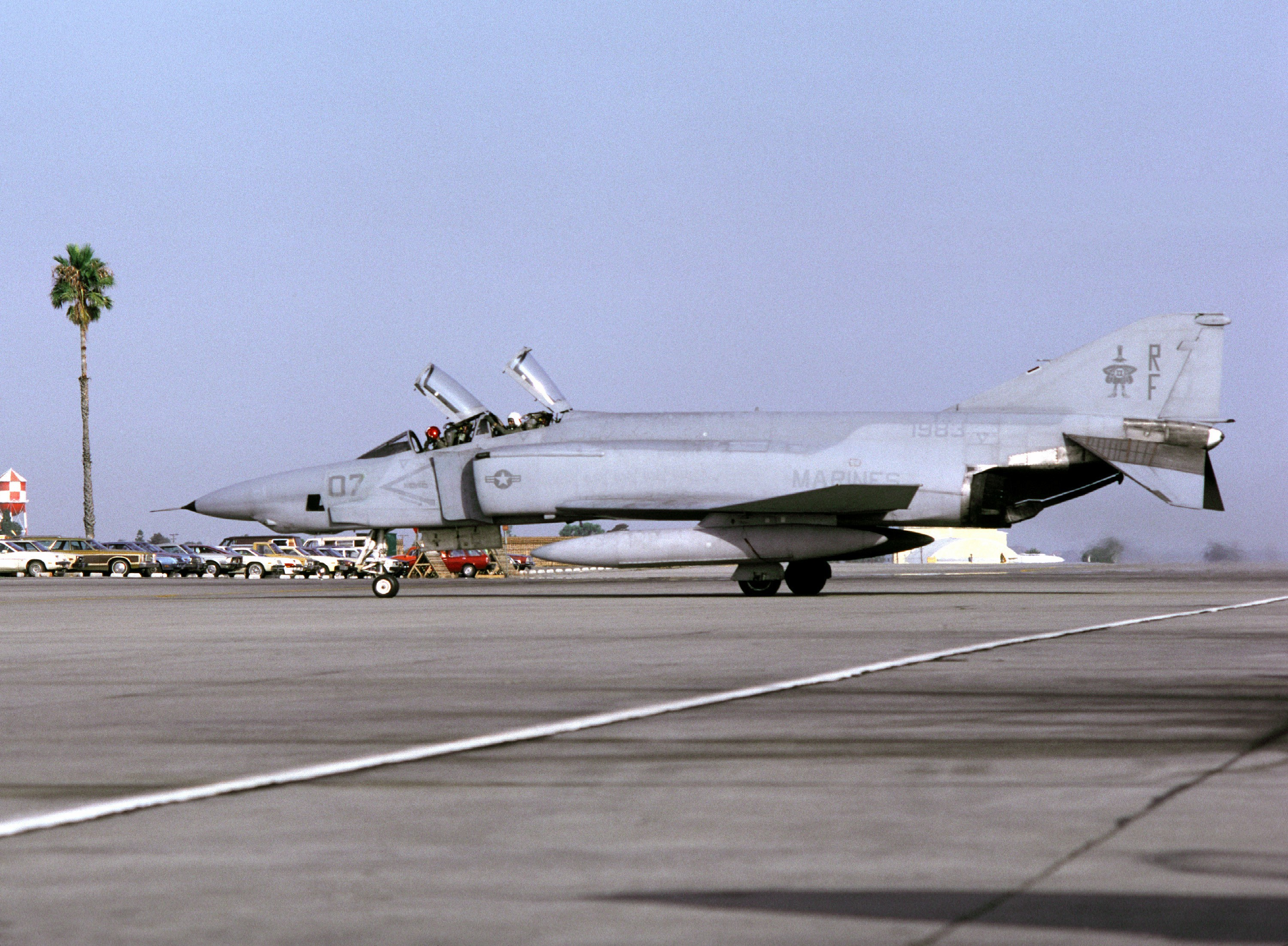 A U.S. Marine Corps McDonnell RF-4B-23-MC Phantom II aircraft (BuNo 151983) from Marine photoreconnaissance squadron VMFP-3 Eyes of the Corps taxiing out from the flight line at Marine Corps Air Station El Toro, California (USA), on 21 September 1982. This aircraft was retired to the AMARC as 8F0330 on 25 May 1989.